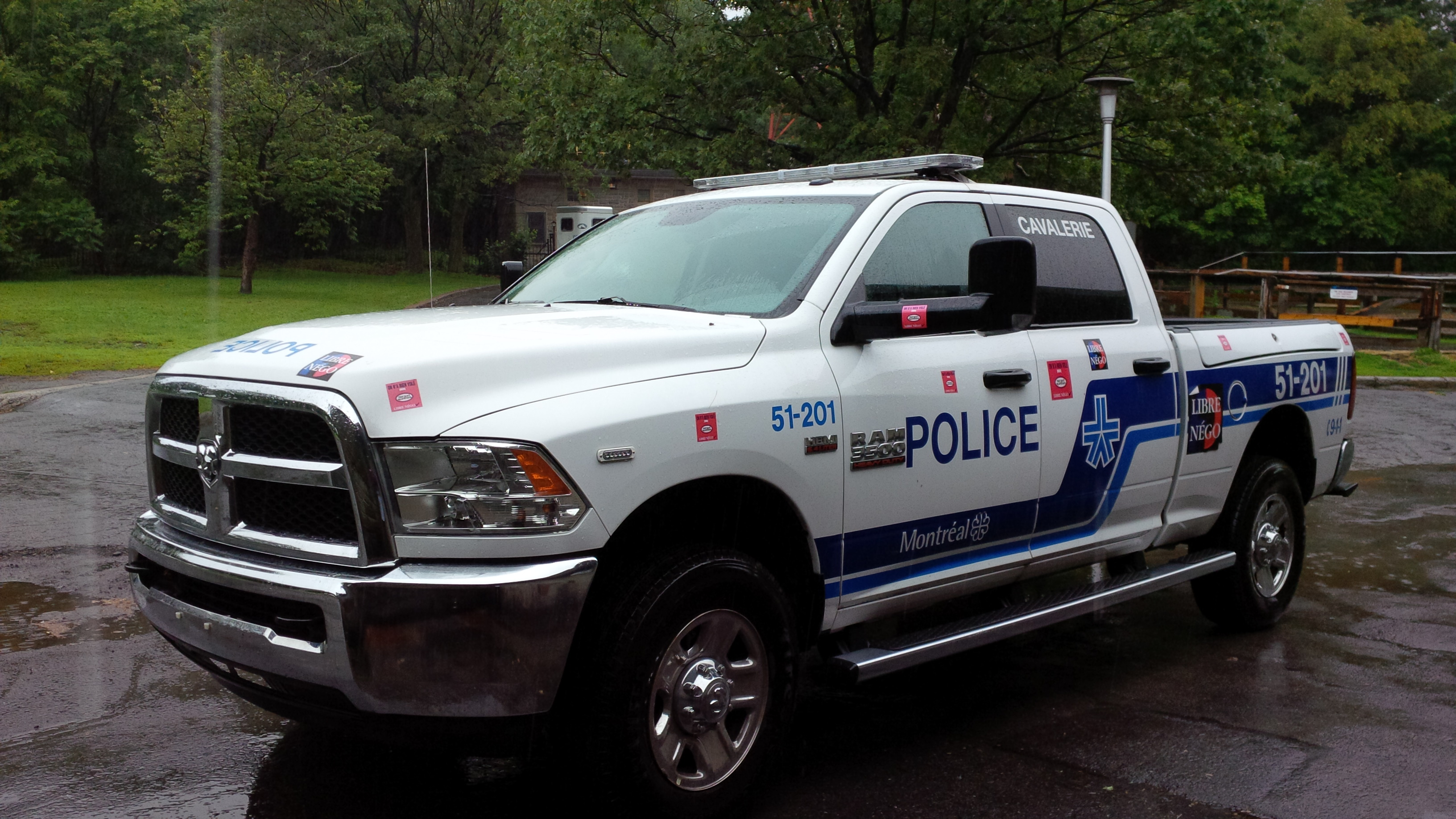 A SVPM Mounted Unit pickup truck